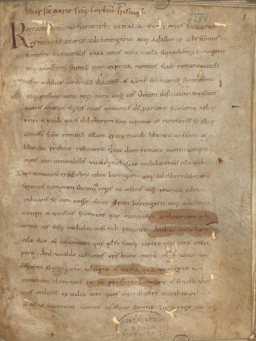 Liutprand, Historia Ottonis. Beginning of text Munich MS Clm 6388 f. 1r